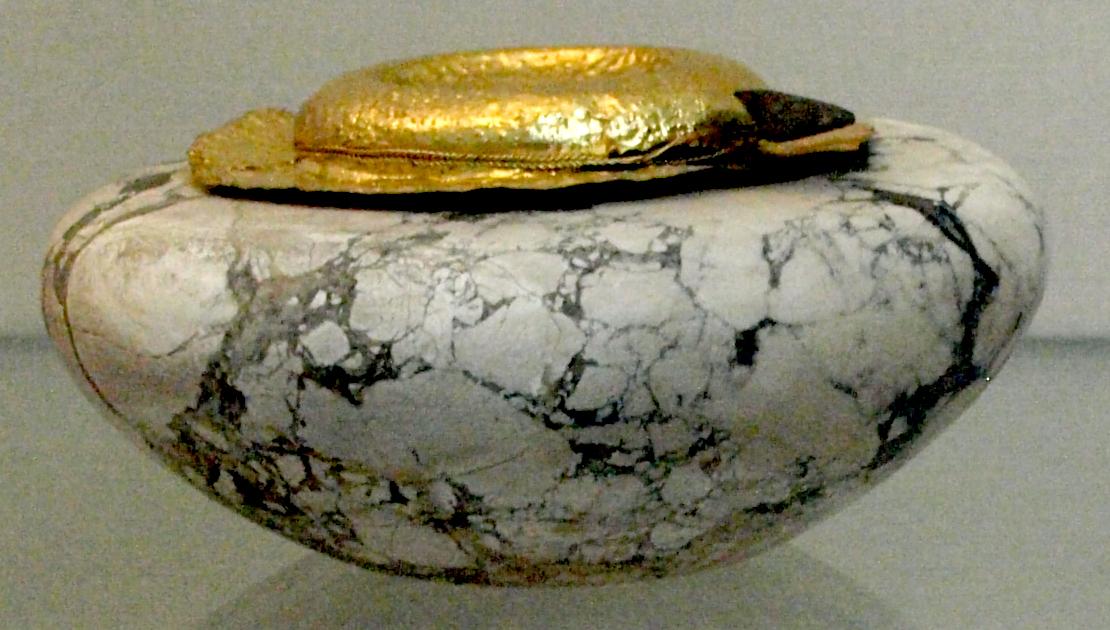 Limestone vassel with gold cover from the tomb of Khasekhemwy. First of two on display at the British Museum. EA 35547.